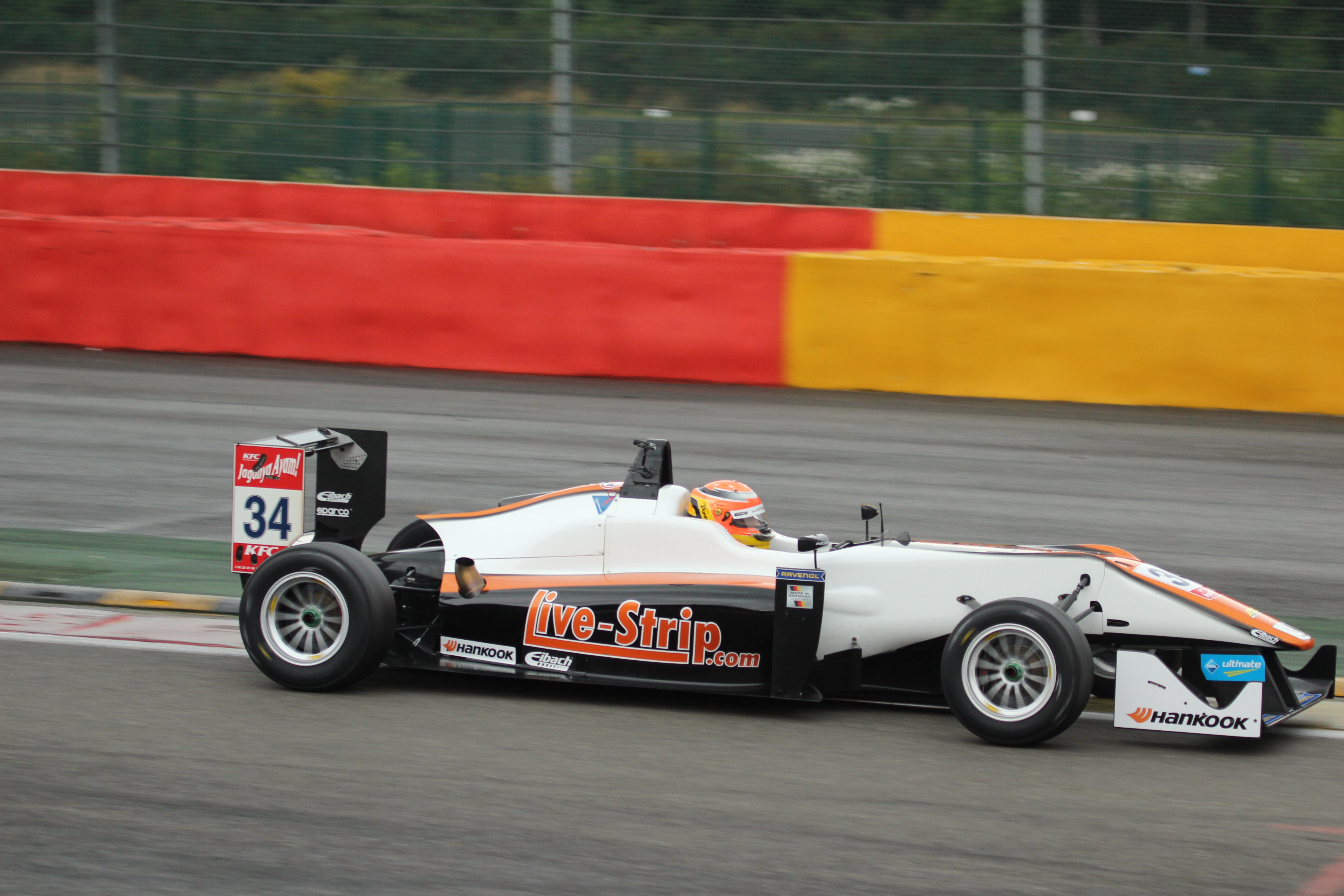 Markus Pommer at Spa in 2015, European Formula 3 Championship